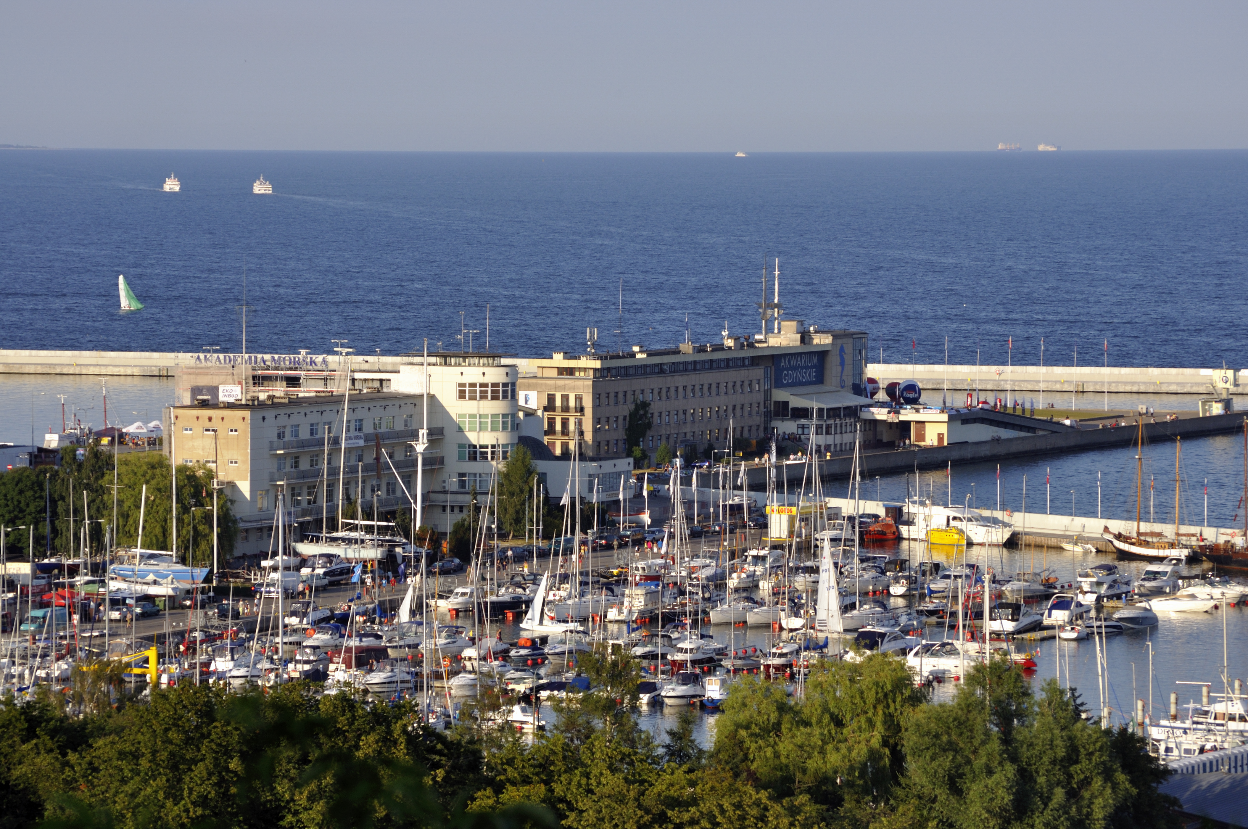 Picture taken in Gdynia after Wikimania 2010 conference.